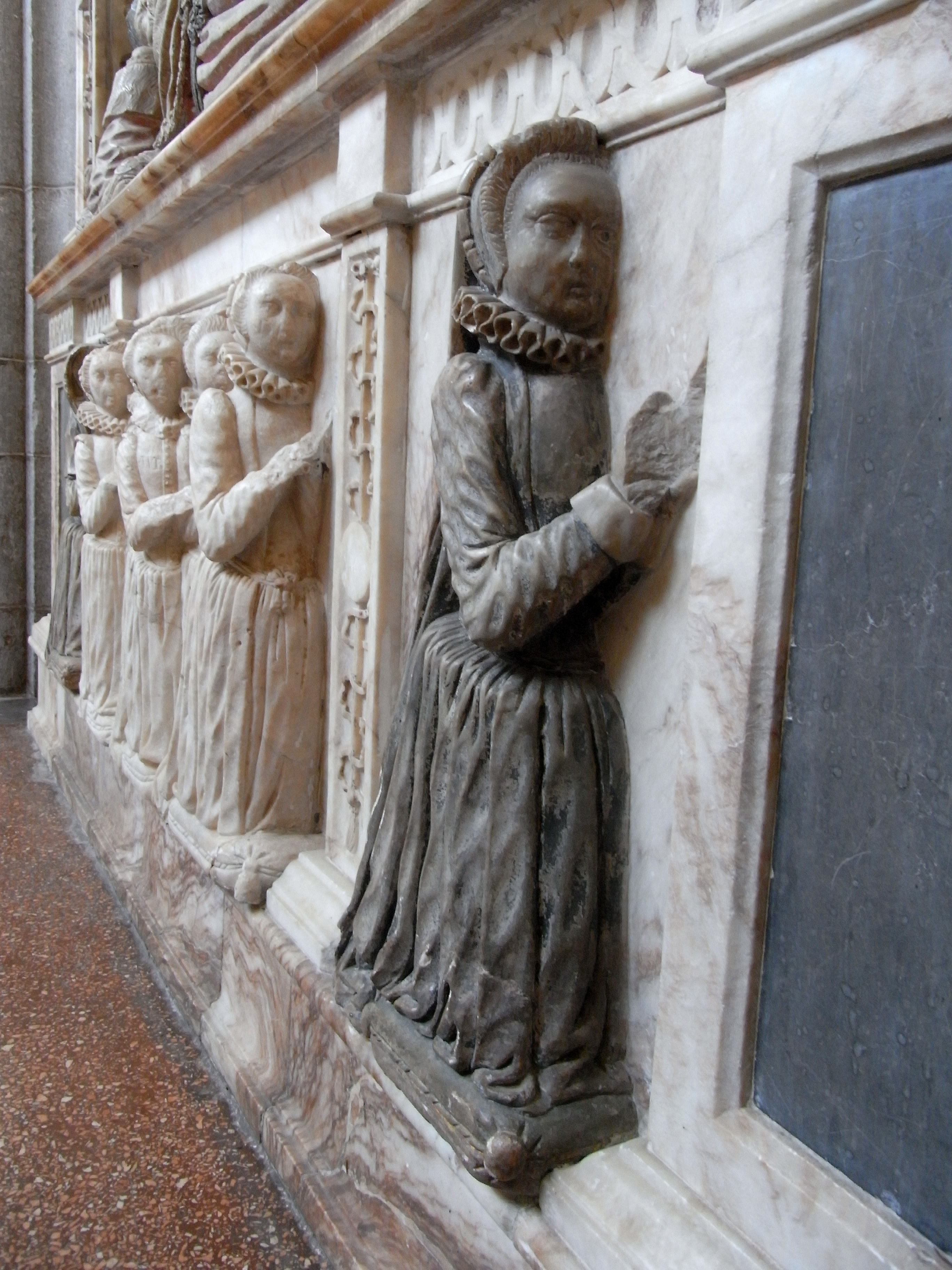 3 wives & 4 daughters of Sir William Peryam (1534-1604), detail from his monument in Crediton Church, Devon